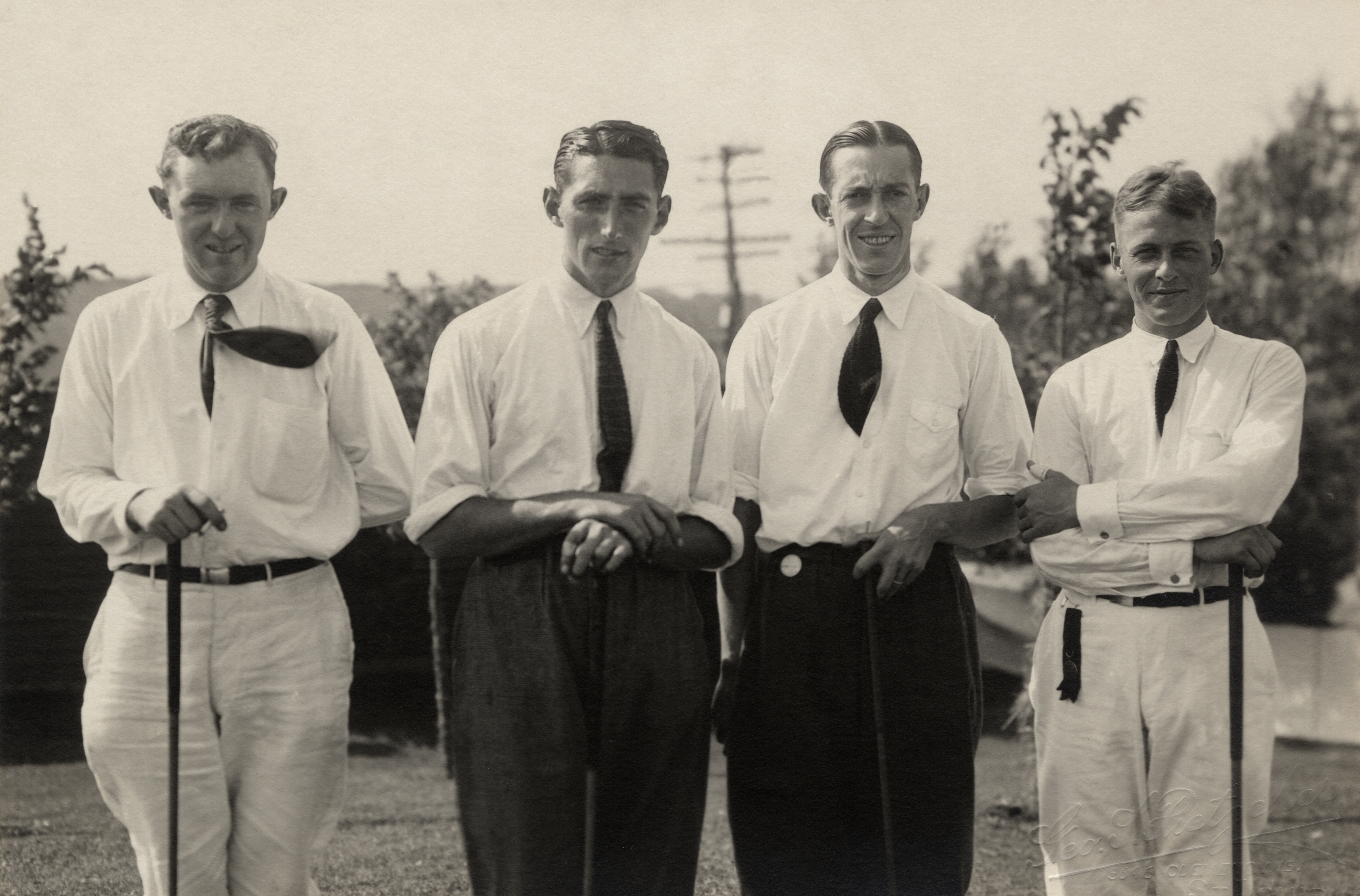 Jesse P. Guilford, Tommy Armour, Francis Ouimet, and Robert T. Jones during the 1921 U.S. Amateur at the St. Louis C.C. in Clayton, Missouri. (Courtesy St. Louis Country Club Archives)